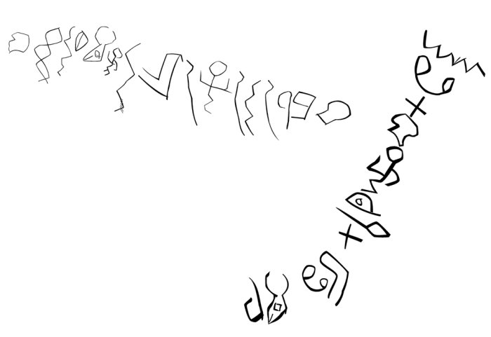 Traces of the 16 and 12 characters of the two Wadi el-Hol inscriptions. (Photos here and here)